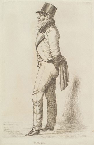 Moses Montefiore